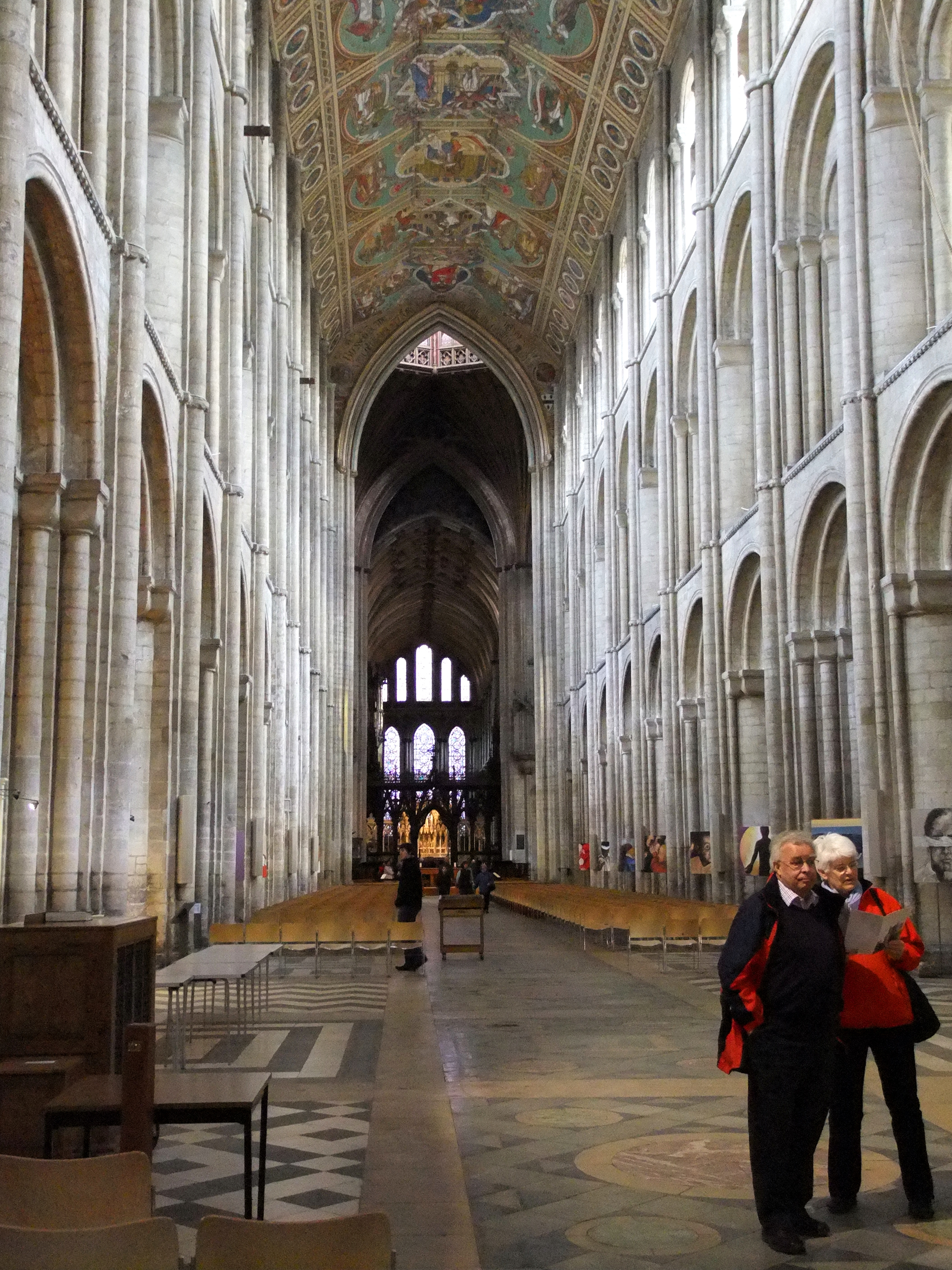 Nave of Ely Cathedral